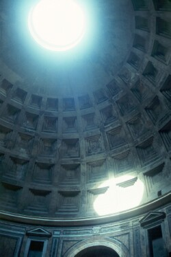 The Oculus in the dome of the Pantheon in Rome. I took this picture when I visited the Pantheon in 2000.